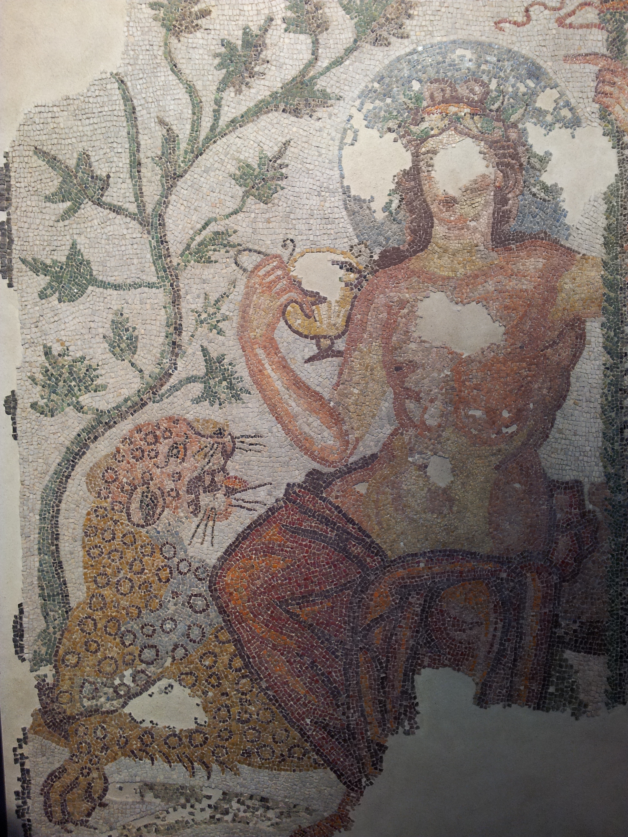 Gamzigrad-Romuliana, Palace of Galerius